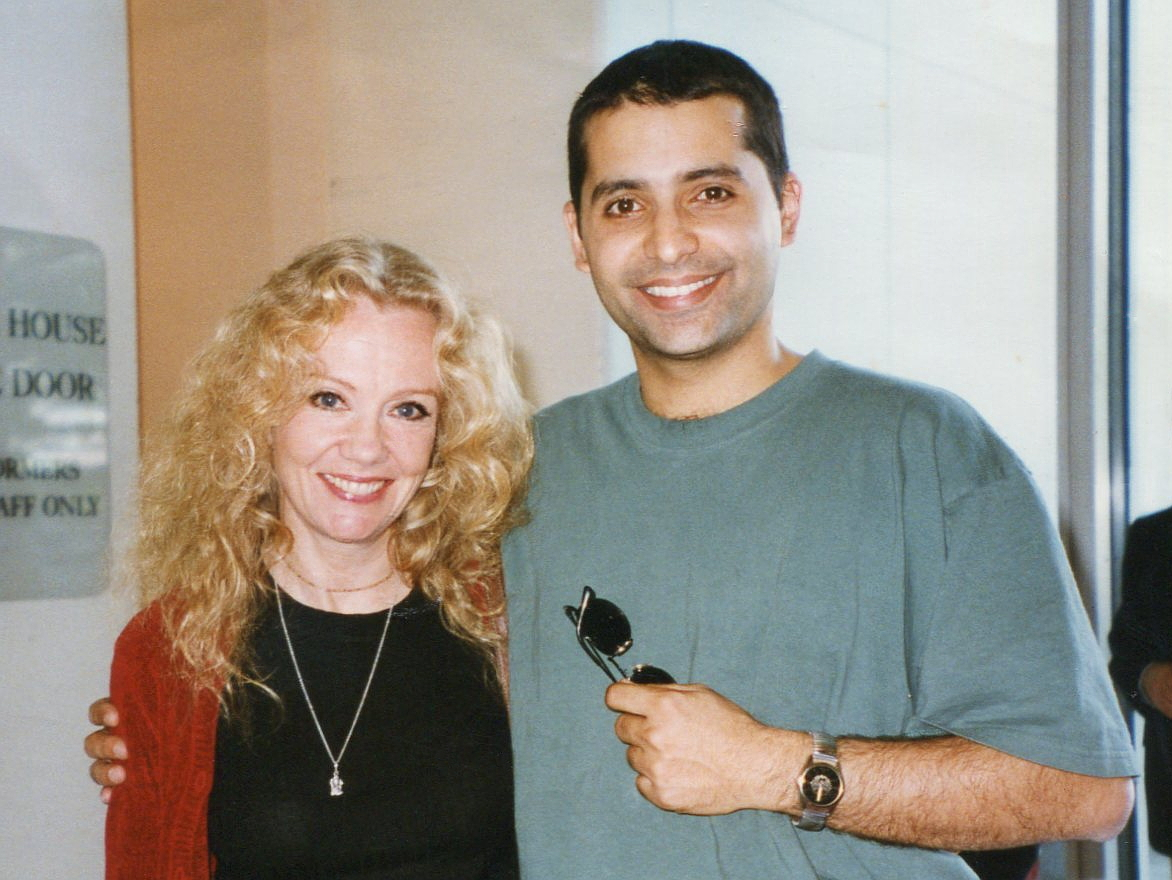 Hayley Mills and Firdous Bamji at the Kennedy Center, Washington D.C., 1997